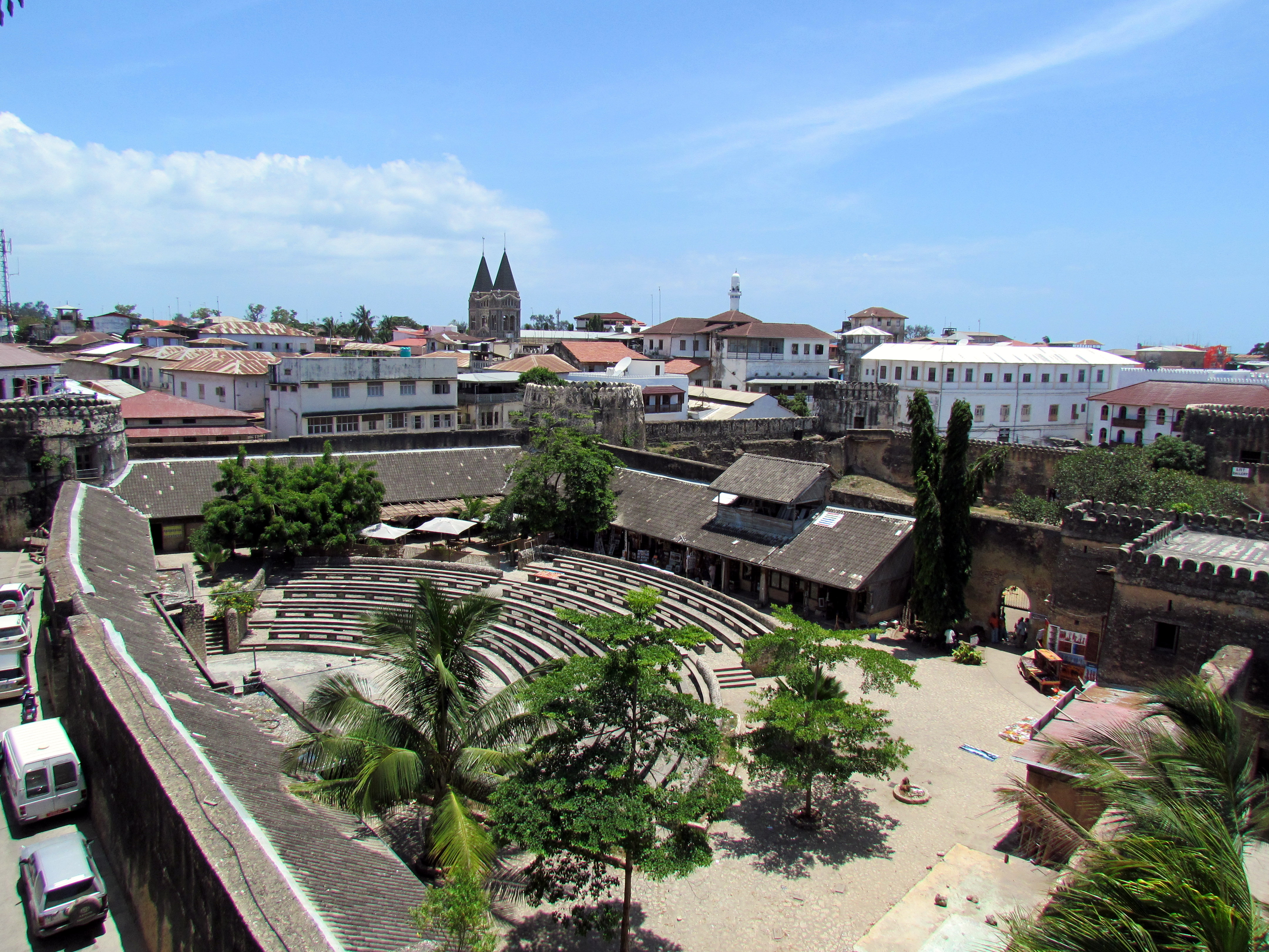 The old fort as seen from the House of Wonders - Zanzibzr, Tanzania